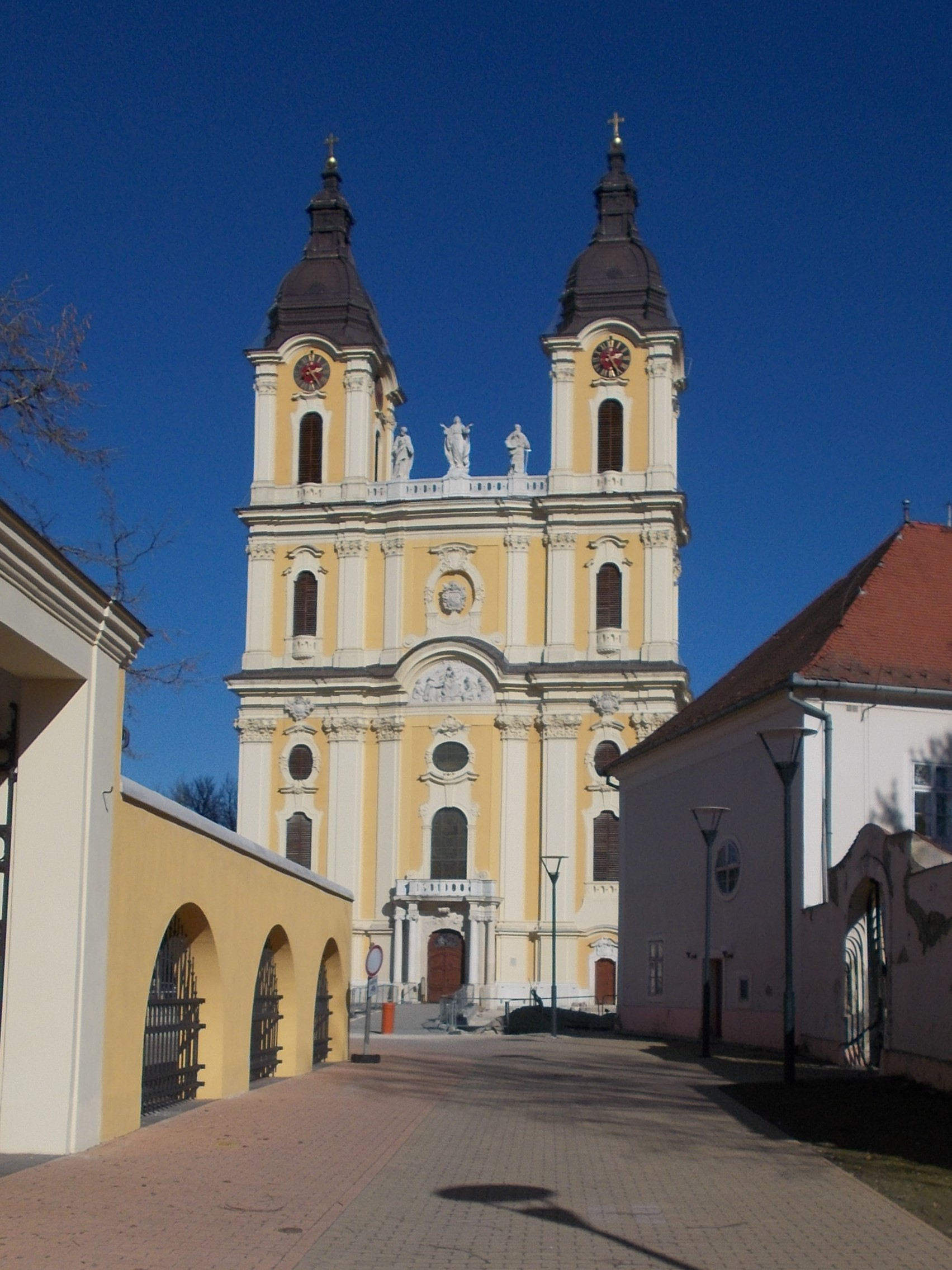 Cathedral. - Kalocsa, Bács-Kiskun County.